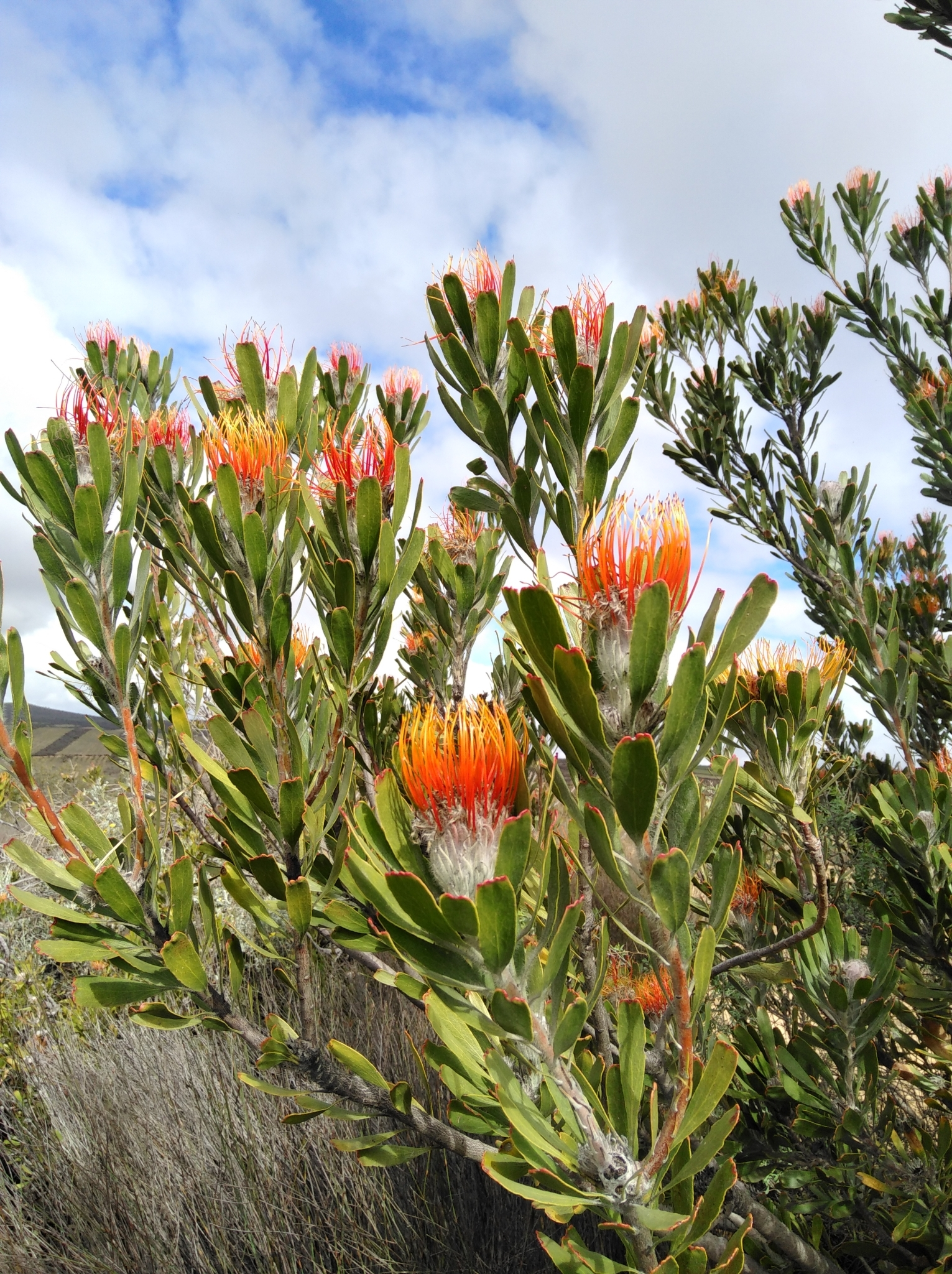 Nardouw pincushion, Leucospermum praemorsum, photographed by Brian du Preez, at Namakwa, South Africa, on 13 September 2017